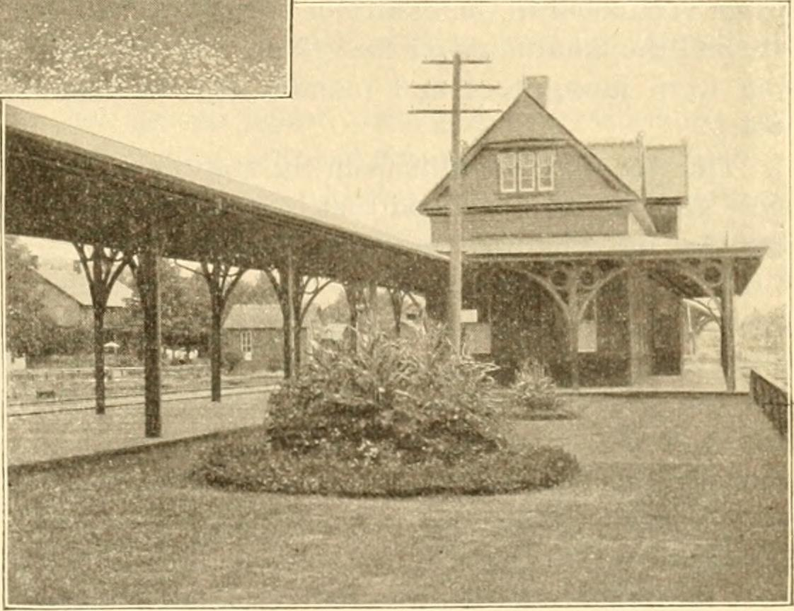 Title: Summer excursion routes and rates .. Year: 1897 (1890s) Authors: Delaware, Lackawanna and Western Railroad Company Subjects: Publisher: New York Text Appearing Before Image: noted educational institutionsof the state. George P. Bible,A. M., is principal. The fol-lowing are among the widelyknown places of interest nearthese two towns: DelawareWater Gap, Highland Dell,The Sanitarium, Silver Lake,Buttermilk Falls, Sambo Falls.Bradleys Falls, Hosiers Knob,Marshalls Falls, Lake of theMountain, Winona Falls, LakePoponoming, Bushkill Falls,Dingmans Falls and IorestPark. Text Appearing After Image: STRULDSlilKl, ST.-VTION. FOREST PARK. BUSHKILL, IIKK COUNTY, IMCNNSYLVA NI A.15 miles from Stroudsburg.It comprises about sixteen thousand acres of land, diversified by mountain andvalley, lakes and streams. Its mountain streamy fed by bubbling springs, are the lurking places of countlesstrout, and the lakes are the abiding places of the gamy black bass and the sun-lovingperch. In the forest, much of which is in primeval state, deer and bear, partridge andpheasant, grouse, quail, woodcock, foxes, rabbits and squirrel abound. 60 DELAWARE, LACKAWANNA & WESTERN R. R. SPRAGUEVILLE. Altitude, 524 ft. 99.14 miles from New York : Single ticket, $2.85 ; Special ticket, $2.65 ; Excursion ticket, $4.05.Spragueville is an attractive village surrounded by many hills, which give it apicturesque appearance. It is the summer home of several wealthy persons whoseresidences are costly and beautiful. Like its larger neighbor, Stroudsburg, it islocated on Brodheads Creek, which at this point is deci